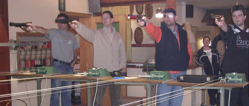 shooting with air-pistol